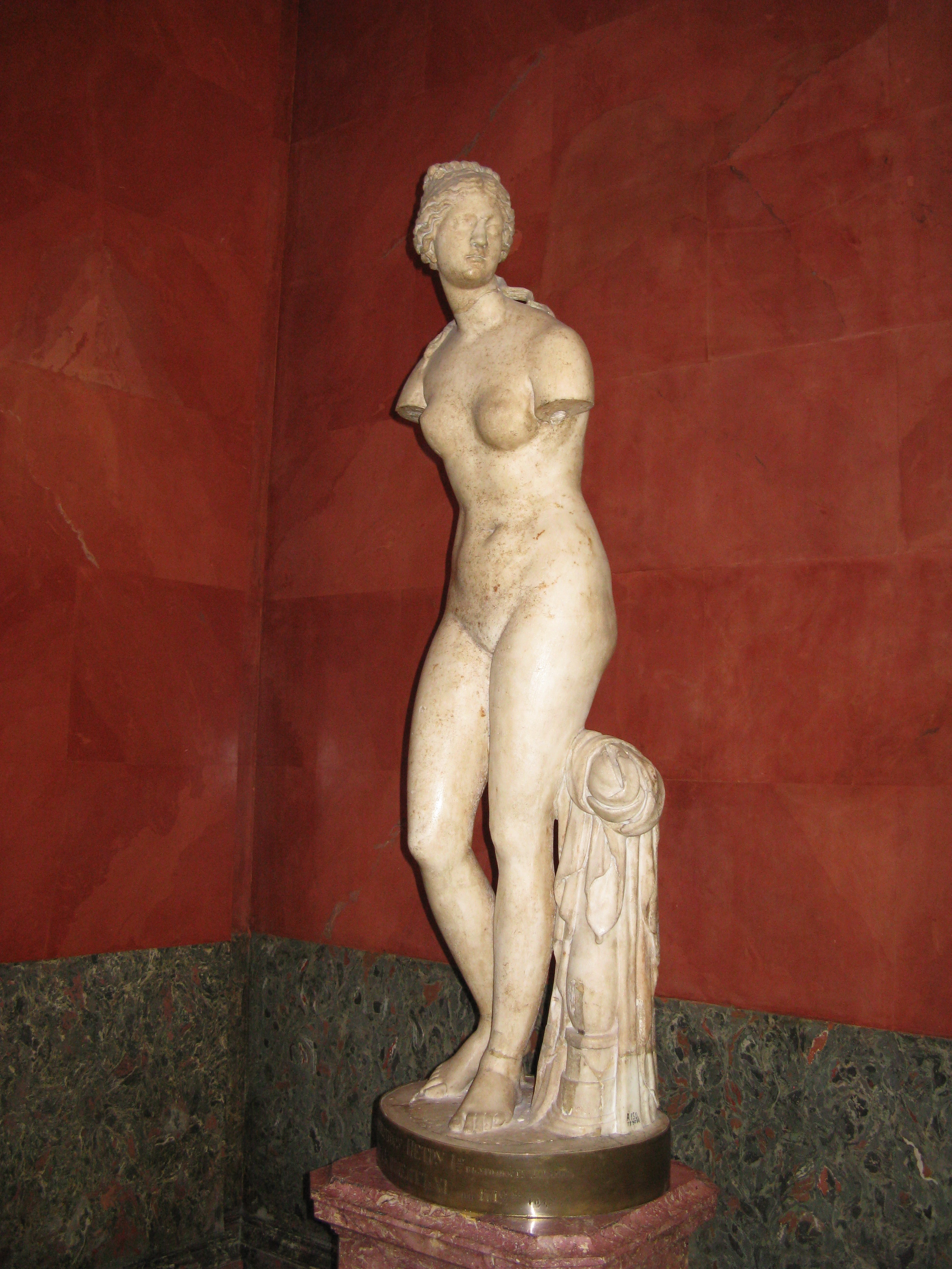 Aphrodite (Venus of Taurida), Greek original of the 2rd-century B.C., Marble. Height 169 cm at the Hermitage.